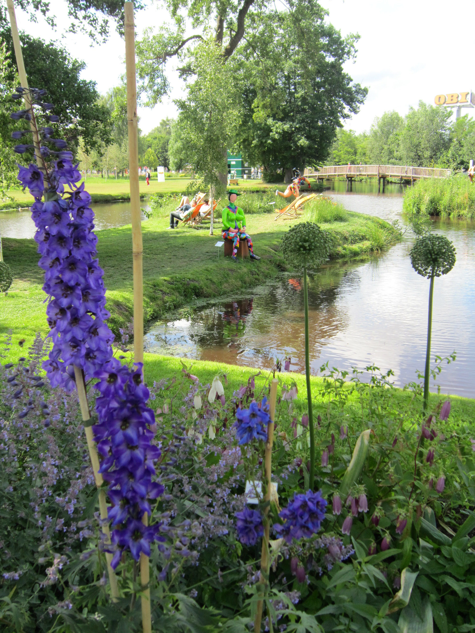 Lower Saxon Garden Festival 2014 in Papenburg, location Town Park